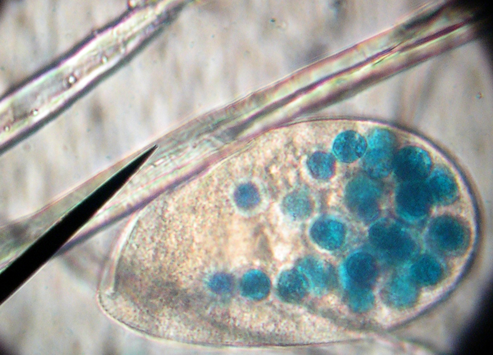 Paramecium fed with dyed food showing food vacuoles in blue